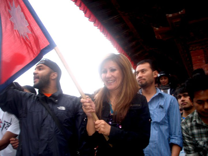 Abhaya Subba along with Shreedeep Rayamajhi protesting in a Nepal Unites Program. The protest was organized to aware public about the statute drafting process of Nepalese Constitution within the stipulated time frame.